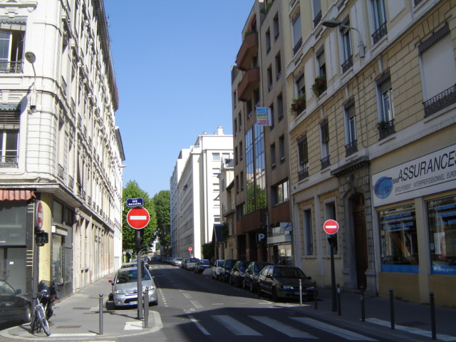 Part of the Rue Tronchet, just before the Rue Masséna